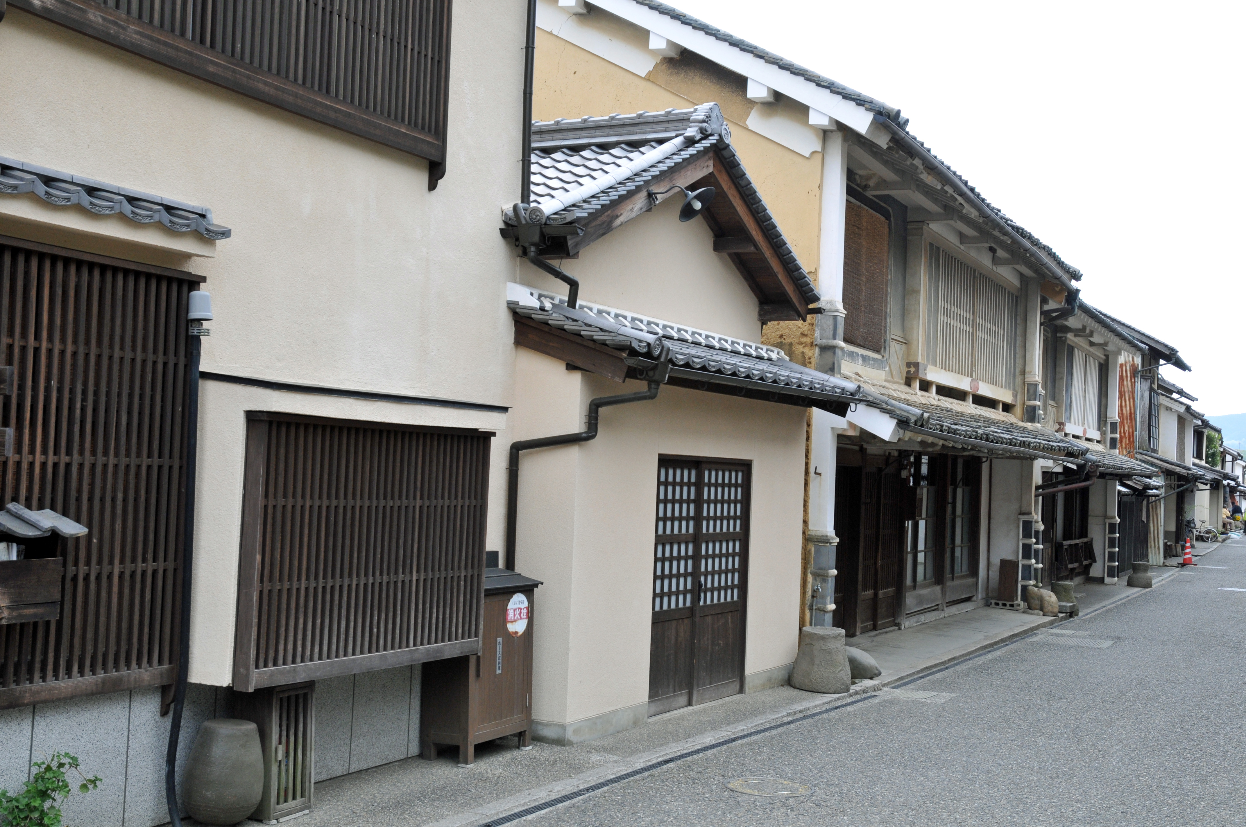 Townscape of Yōkaichi-Gokoku